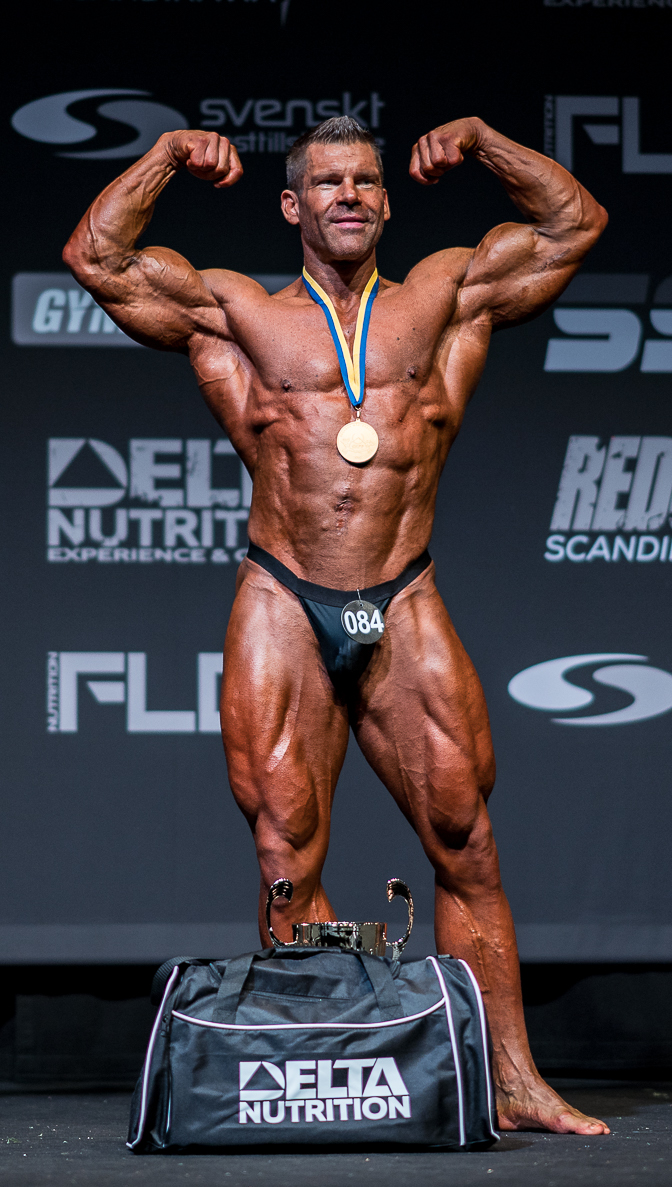 Arne Lundell #84